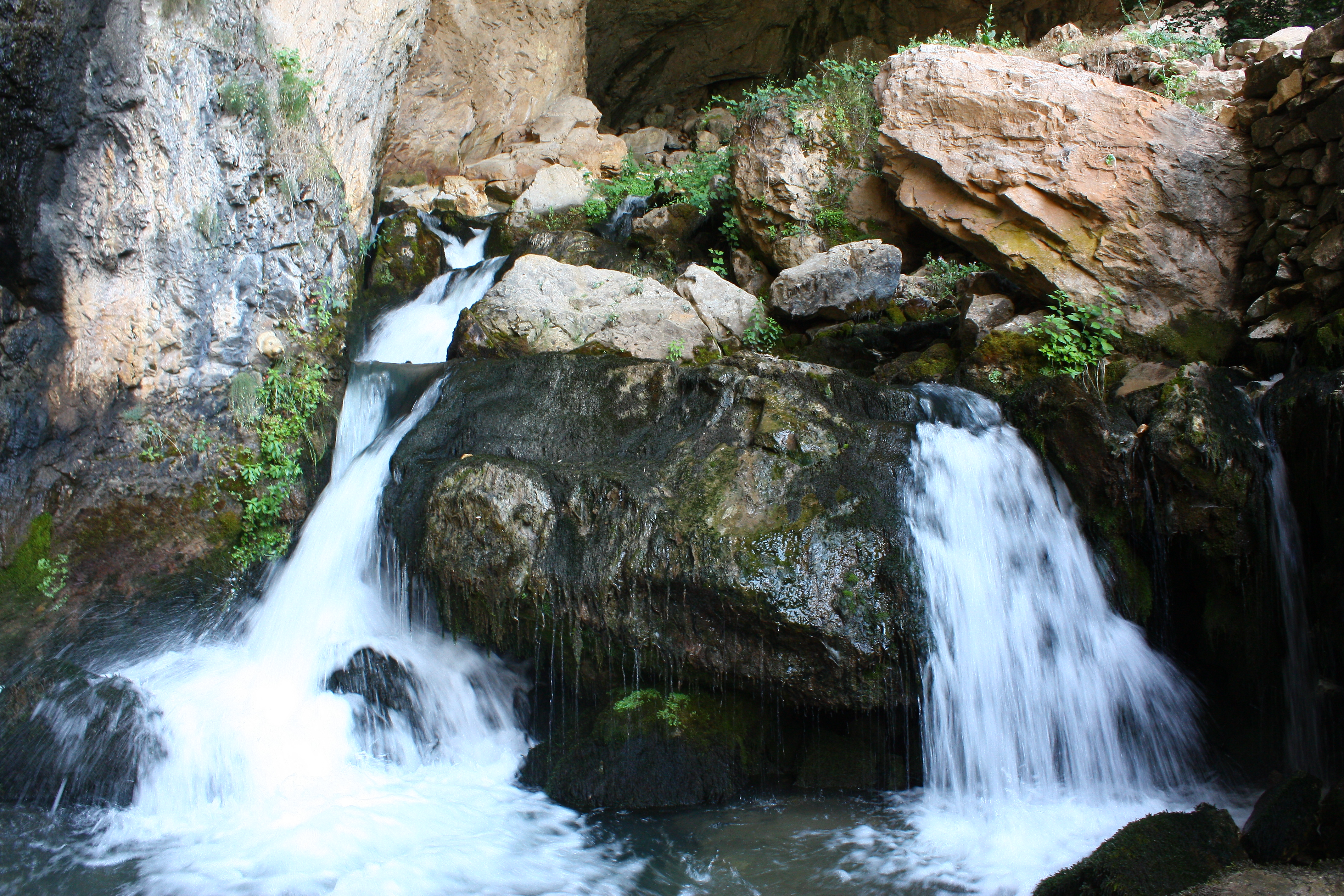 Pešnica River, Macedonia